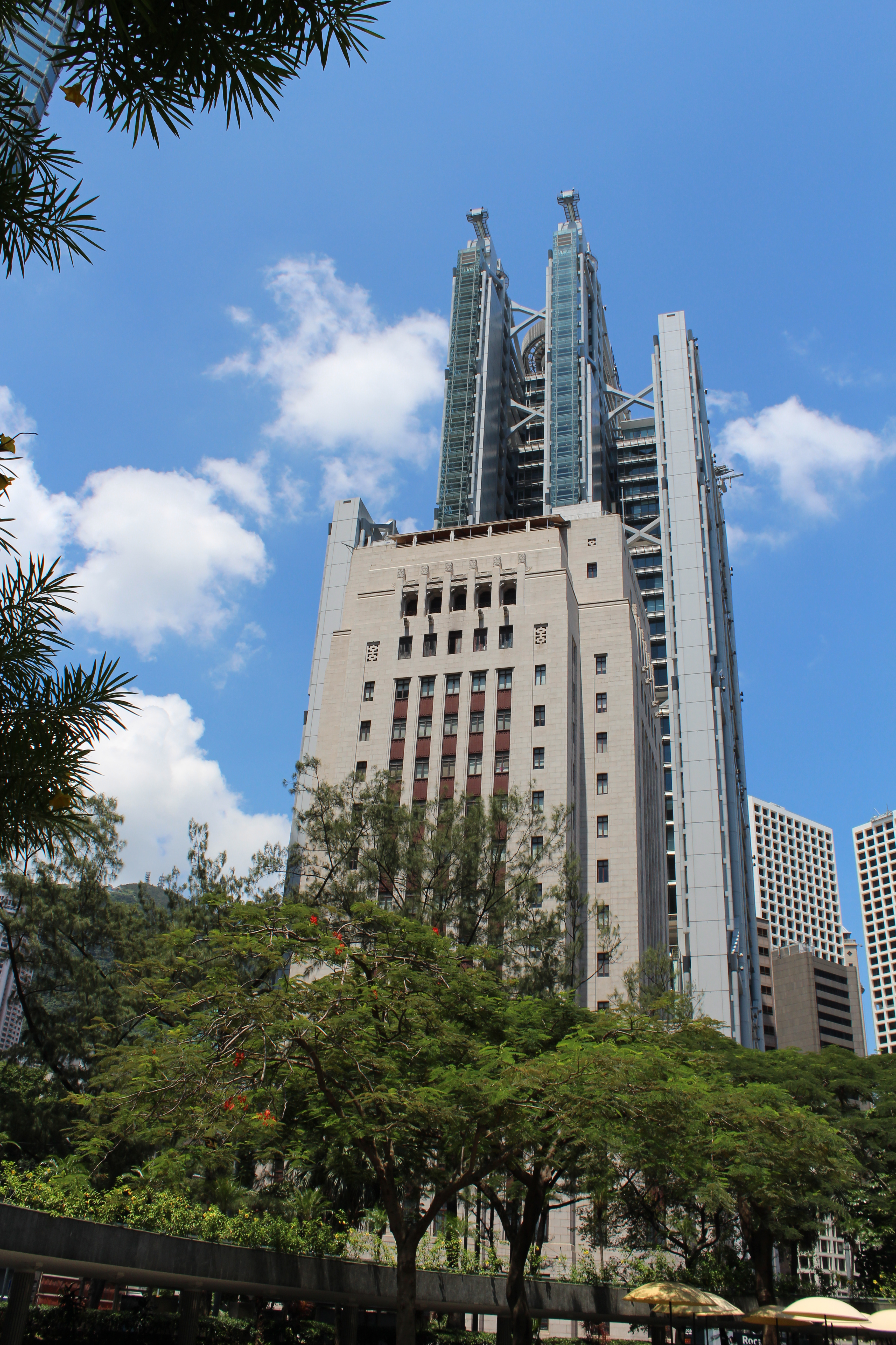 Central area, Hong Kong